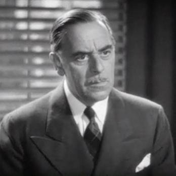 Walter Kingsford in Calling Dr. Gillespie - trailer (cropped screenshot)